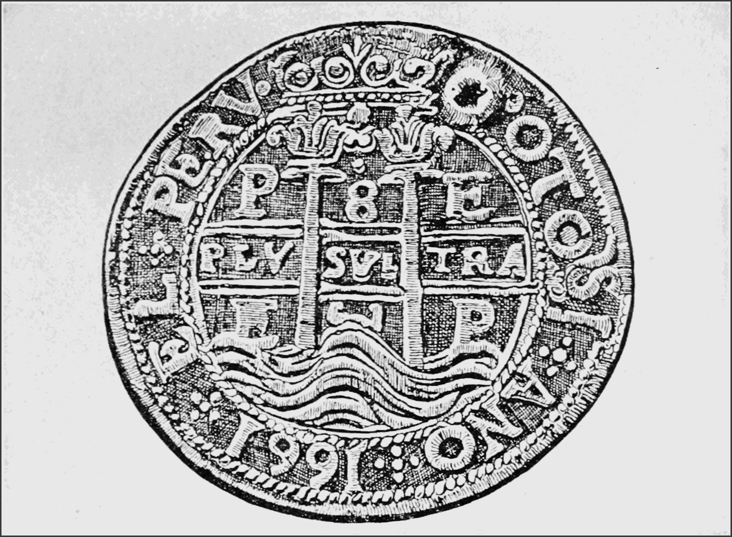 Captioned: Figure 1. "Pillar Dollar" of 1661, showing the "Pillars of Hercules." (From "Century Dictionary," under "Pillar.")